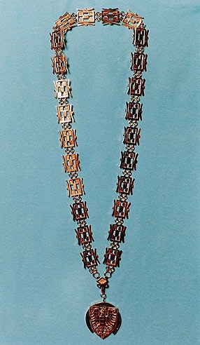 Insignia of mayor of Olomouc, city in the Czech Republic